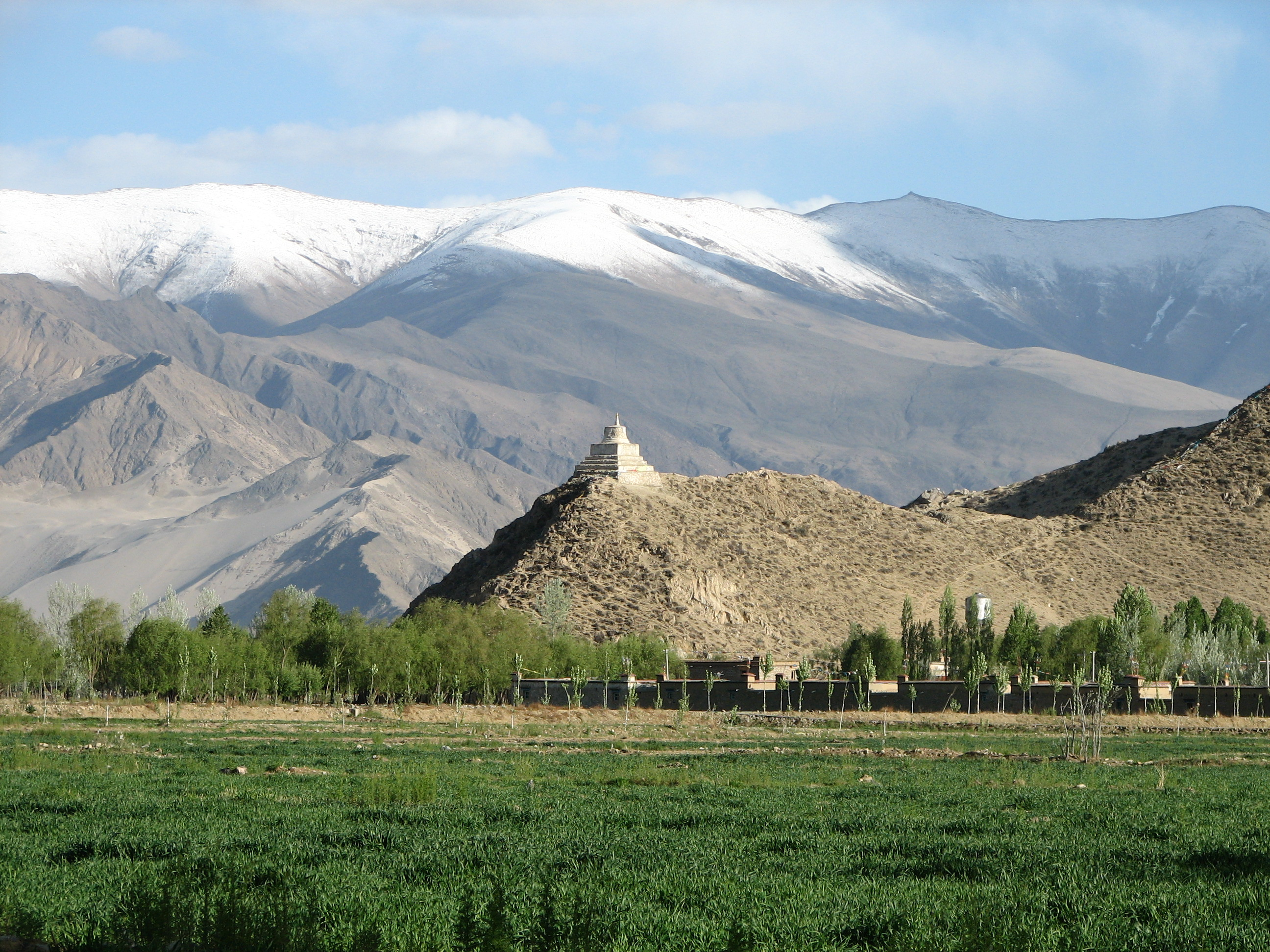 Trekking 4 days from Ganden Monastery to Samye Monastery. Our first glimpse of Samye having trekked from Ganden over 5 days (do-able in 4 with good weather). The lush green on the valley contrasts sharply with the dry and still frozen alpine peaks and plateaus above.